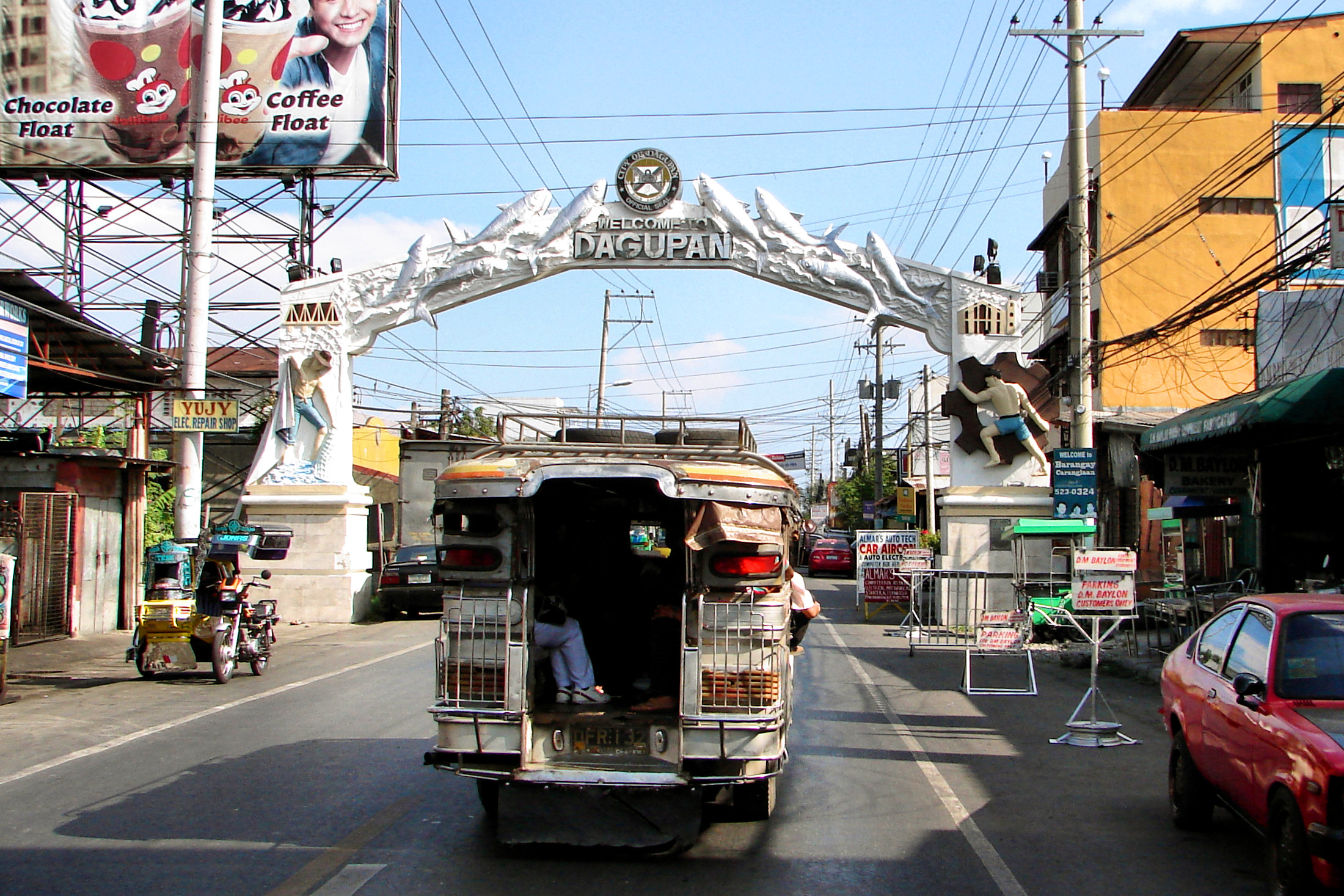 Welcome sign of Dagupan, Pangasinan, Philippines